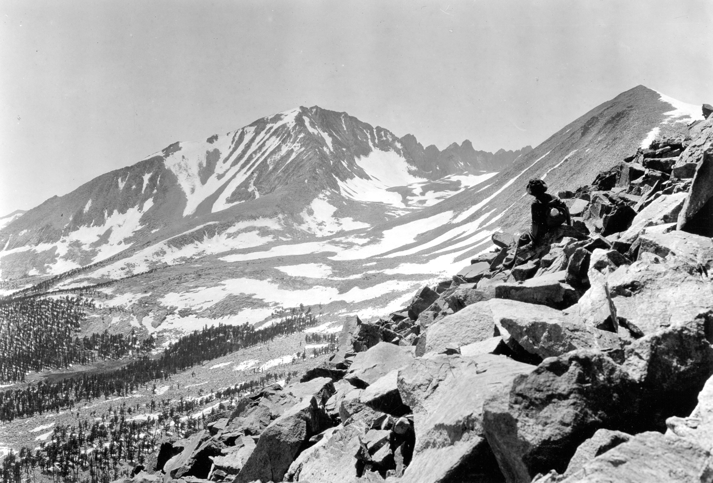 Sequoia National Park, California. The Kaweahs, viewed from Red Spur. Photo by W.L. Huber, circa 1932.